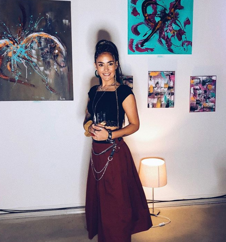 Art exhibition by Sofia Zida in the Red art gallery